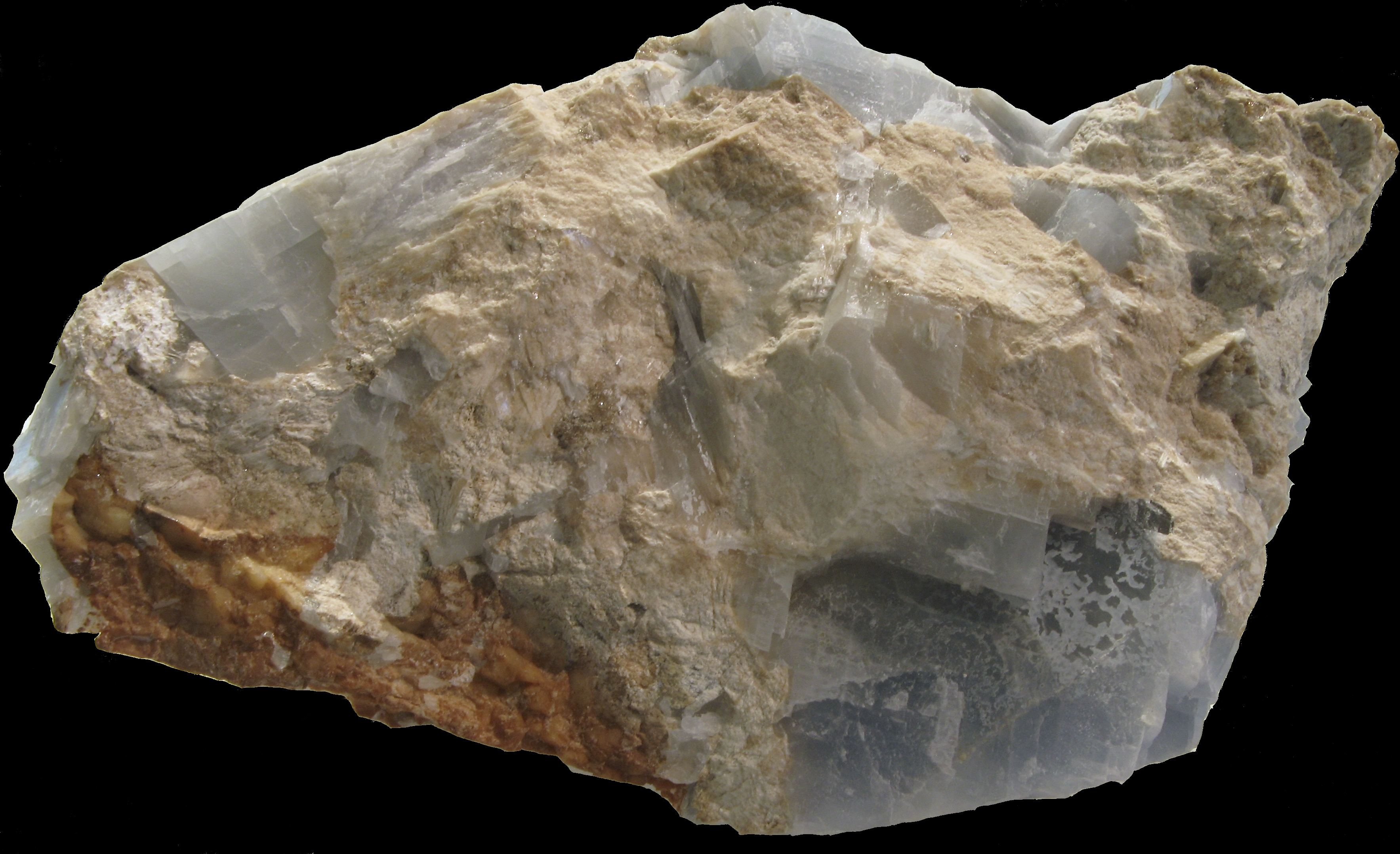 Åkermanite (yellowish brown), Calcite (blue), Hillebrandite (variety Foshagite, fibrous), Tilleyite (mallow colored) Locality: Crestmore, Riverside, California, USA Collection of Dr. Schilly, 1966 - Exposed in the Mineralogical Museum of University Bonn, Germany